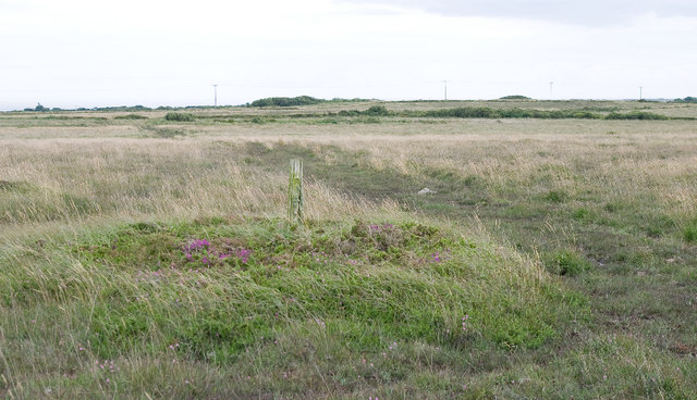 Mounds nr Gwenter, Goonhilly Downs There were several of these mounds in the area but, as only a few lay on the parish boundary line, we were uncertain as to their purpose. New signage around the National Nature Reserve at nearby former radar station, RAF Dry Tree, suggests that they were actually defensive structures designed to prevent landing by glider-borne invaders in WWll.